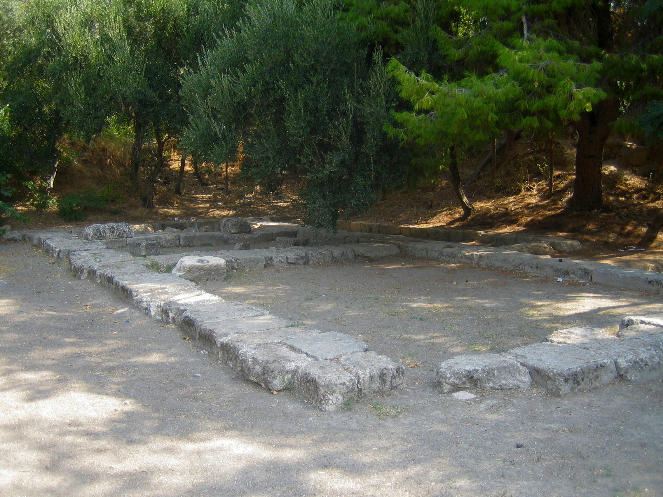 Plato's Academy Archaeological Site in Akadimia Platonos subdivision of Athens, Greece.